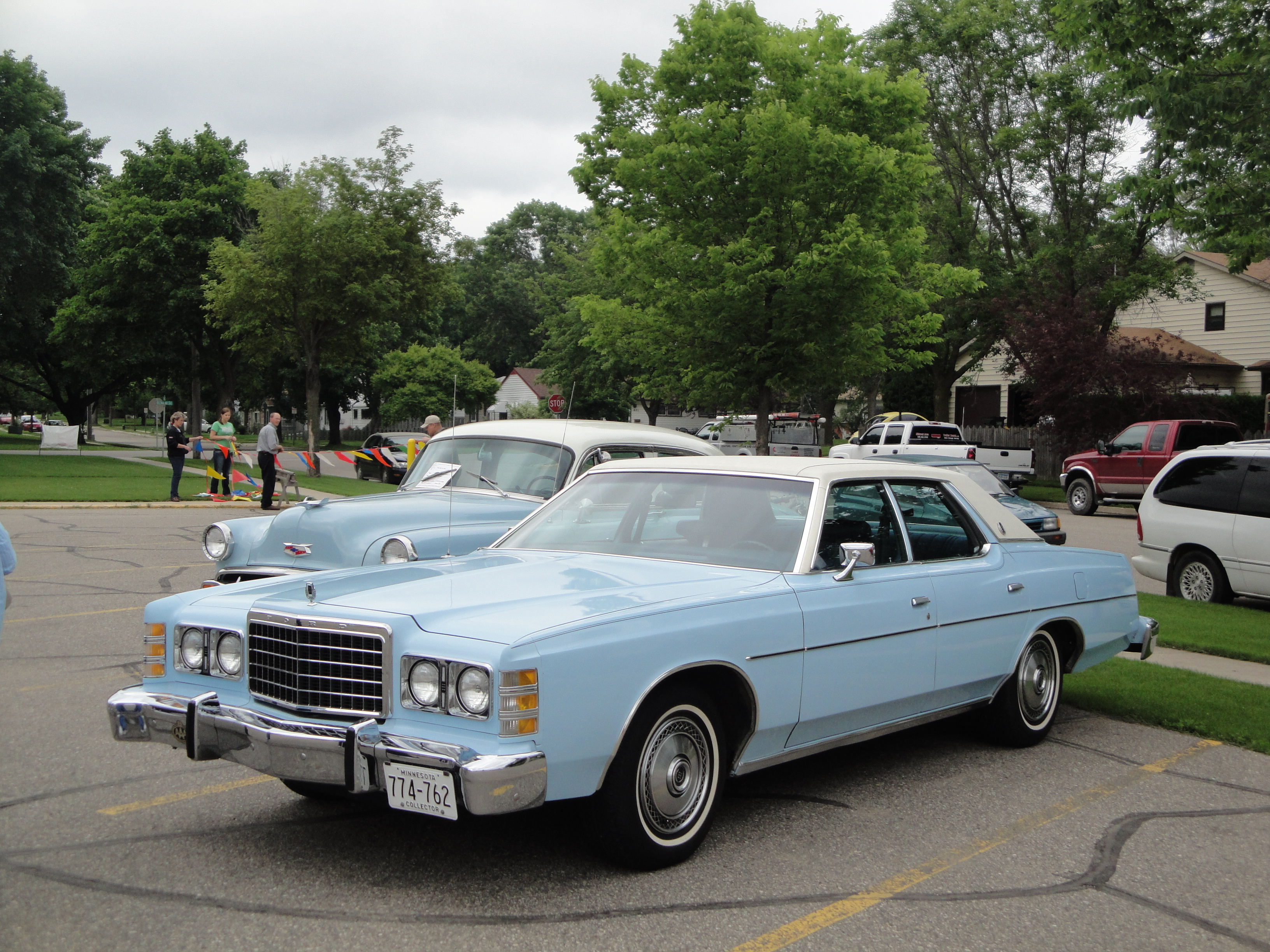 Front 3/4 view of a 1977 Ford LTD 4-Door Pillared Hardtop. Description from Flickr:Calvary Lutheran Drive In Night